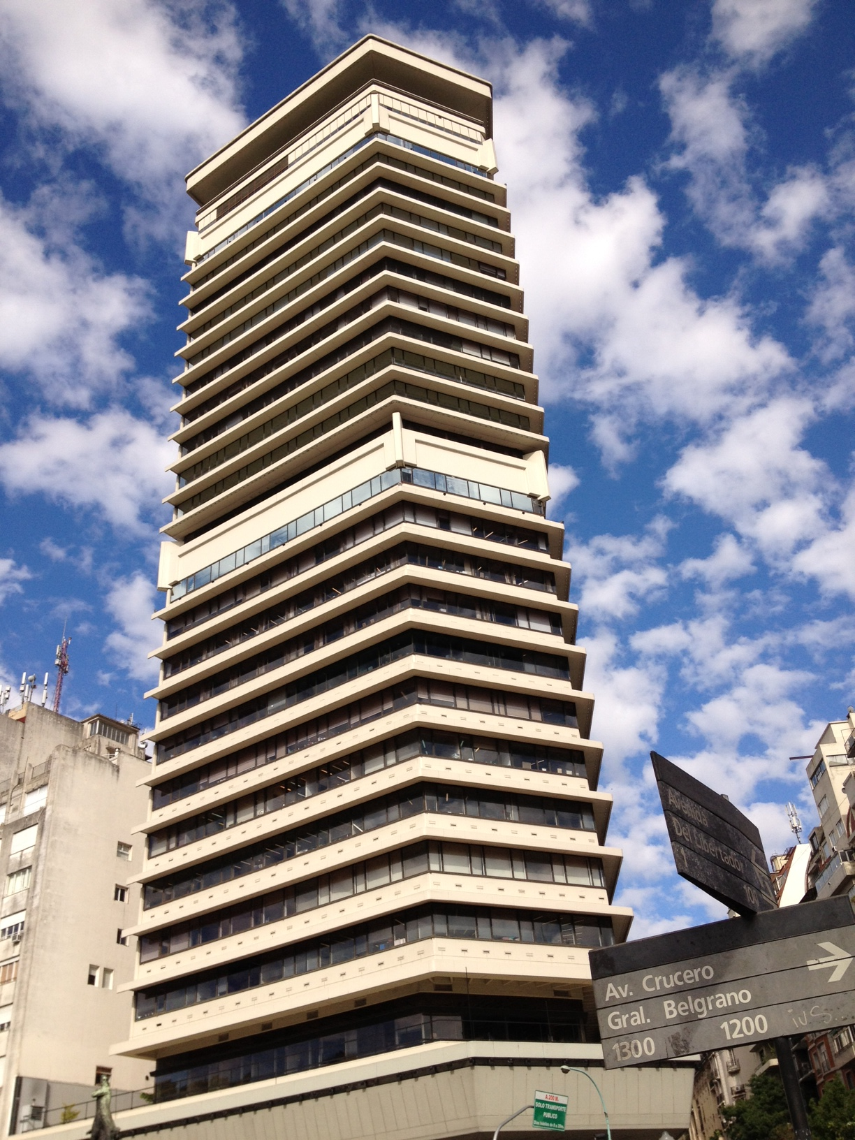 Photo of Pirelli bulding in Buenos Aires, Argentina